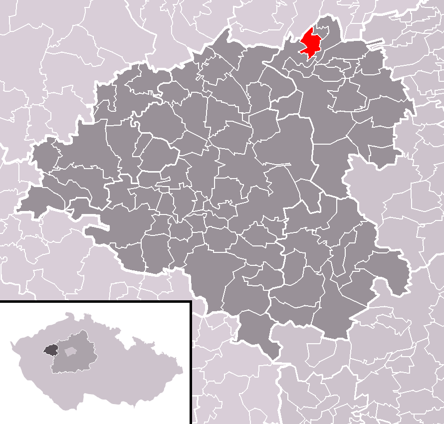 Location of Pochvalov municipality within Rakovník District and (identical) administrative area of Rakovník as a Municipality with Extended Competence.